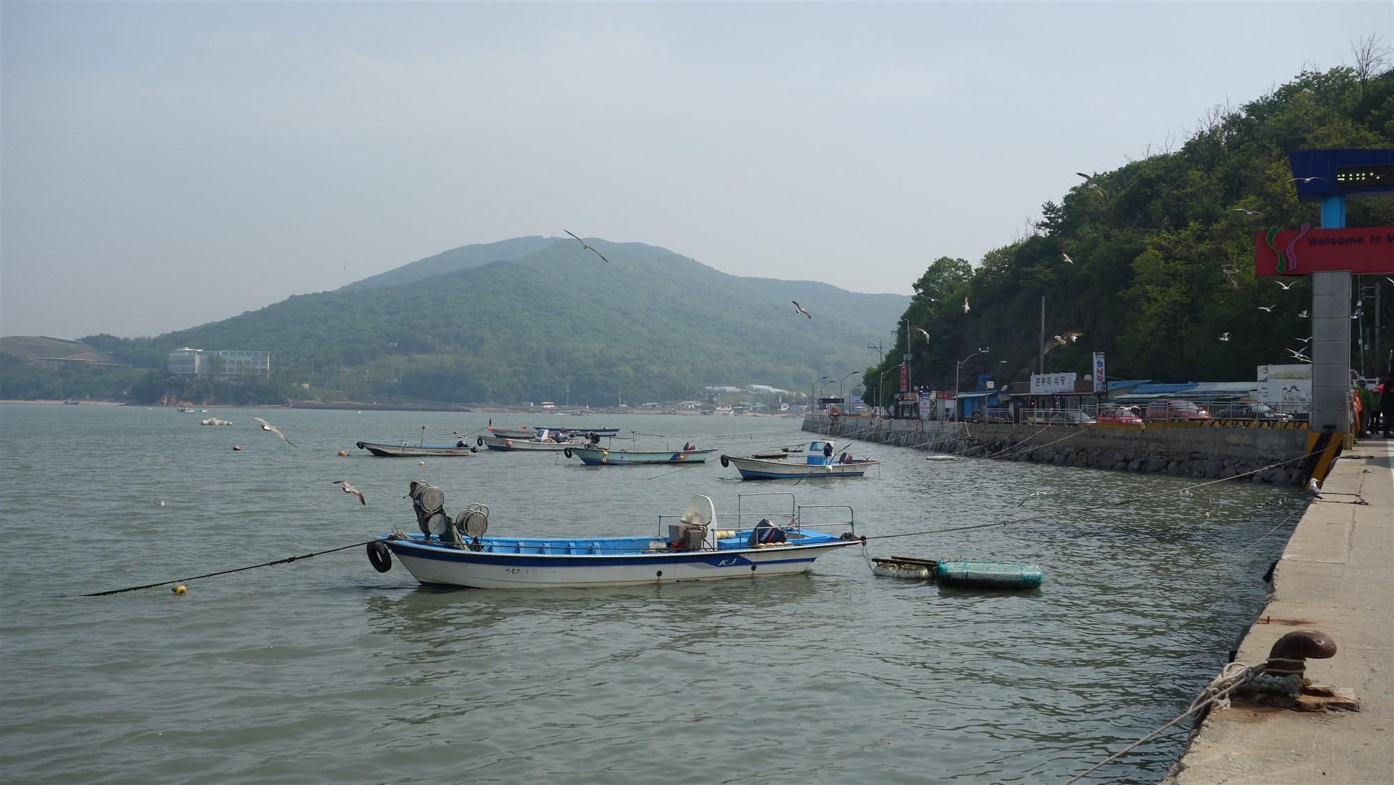 Muuido Island from ferry dock, South Korea, near Incheon International Airport